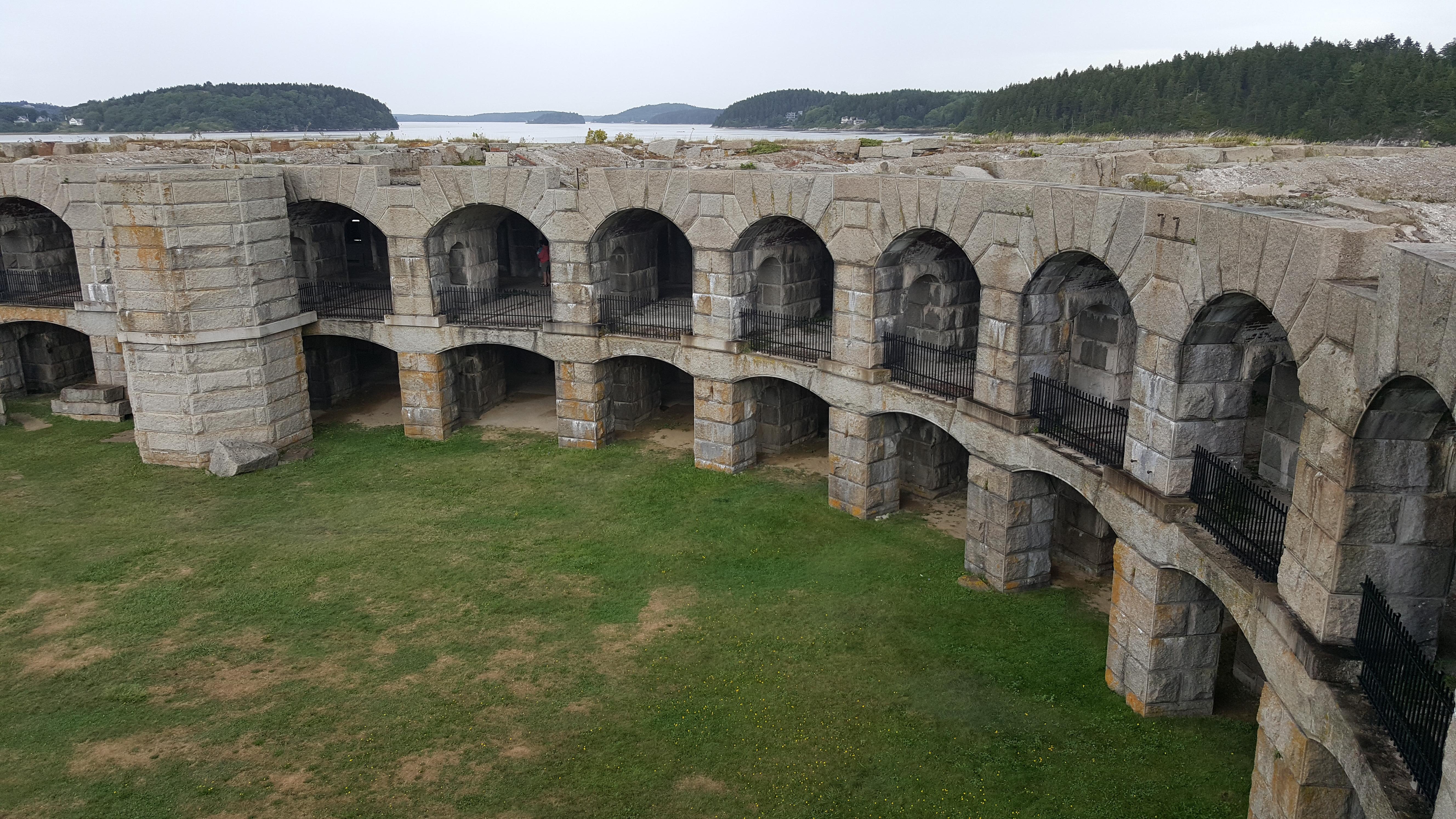 View looking down into open courtyard of Fort Popham.